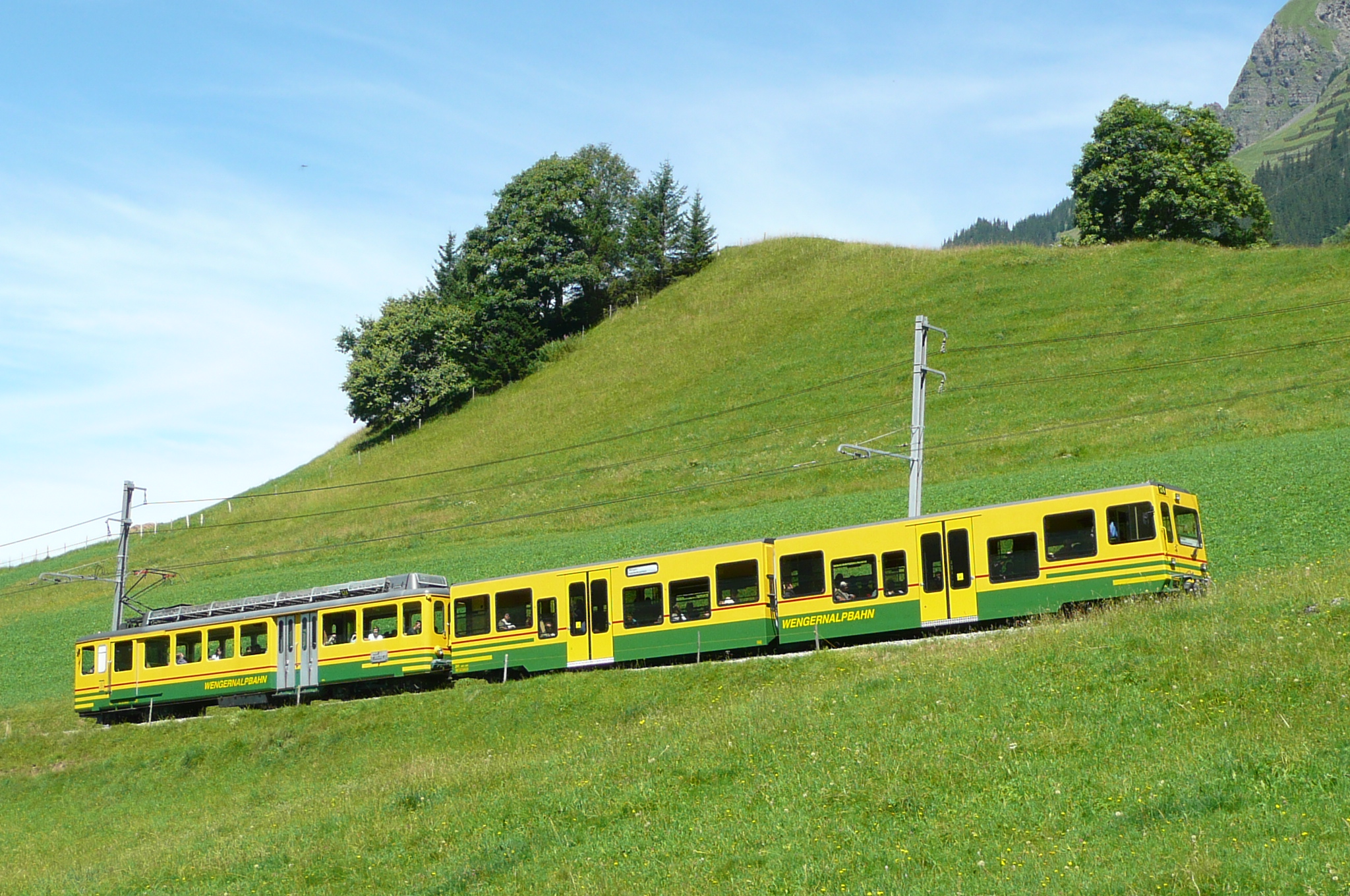 Wengernalp rack railway summer shuttle train composition since 1998 motor coach BDhe 4/4 124 of 1970 and control cab coach series Bt6 241-244 of 1998. Line Lauterbrunnen-Kleine Scheidegg – 2009-08-05